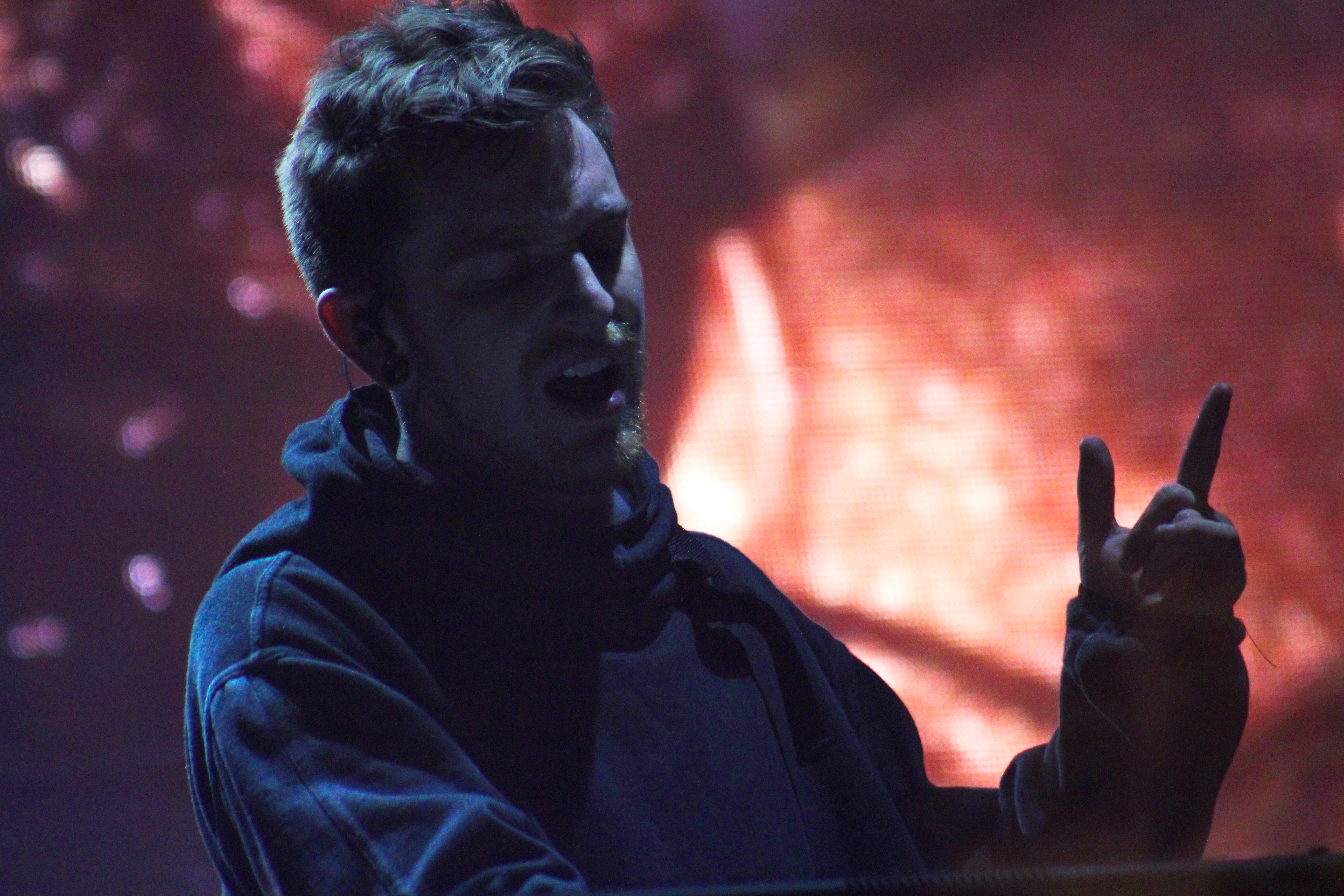 ILLENIUM in Las Vegas (photo credit Nainoa Langer) Illenium (stylized as ILLENIUM), is an American musician, DJ and producer